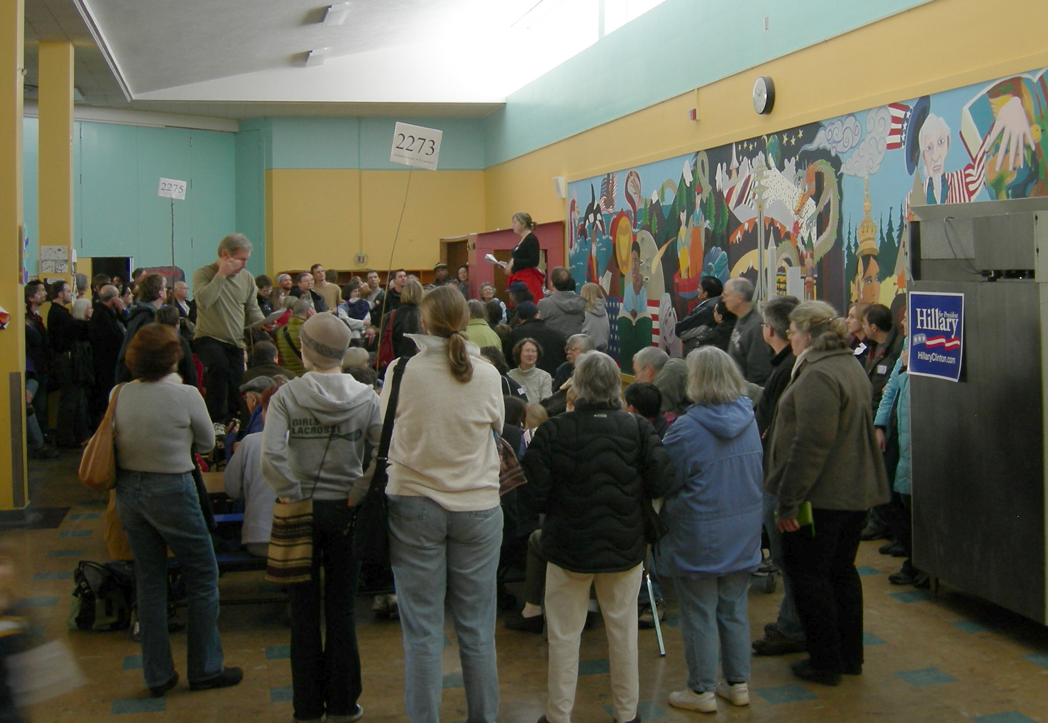 Part of the 2008 Washington State Democratic Party Caucus. This is at the Eckstein Middle School, Seattle, Washington. The precincts meeting there were part of the 46th Legislative District. Each precinct caucuses separately. Here, precincts caucus in the school lunchroom.